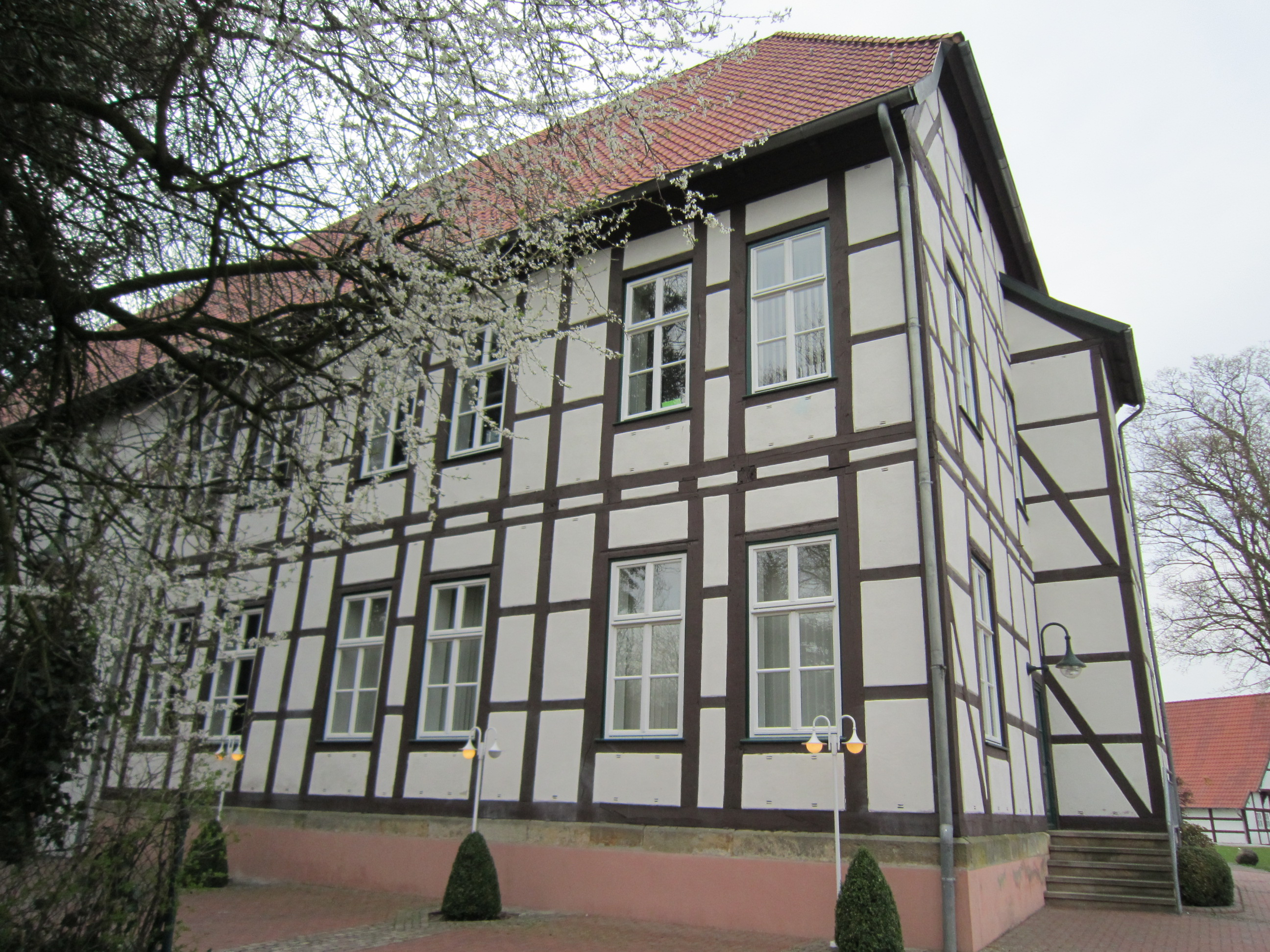 Former "Amtshof" in Lemförde, Landkreis Diepholz